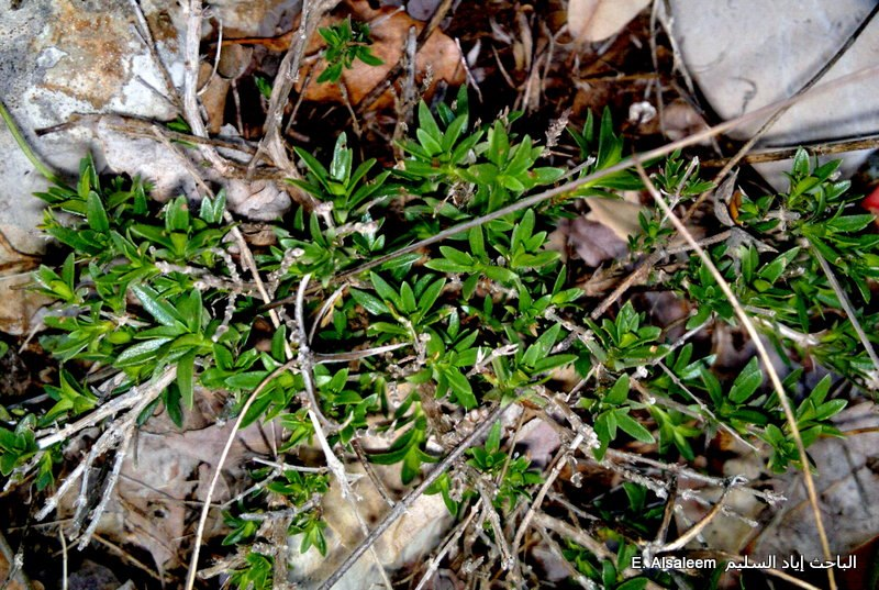 نباتات برّية سورية تؤكل